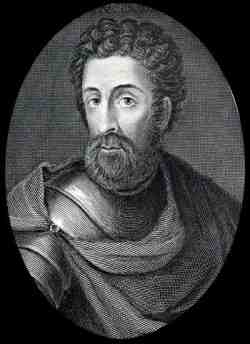 Picture of William Wallace